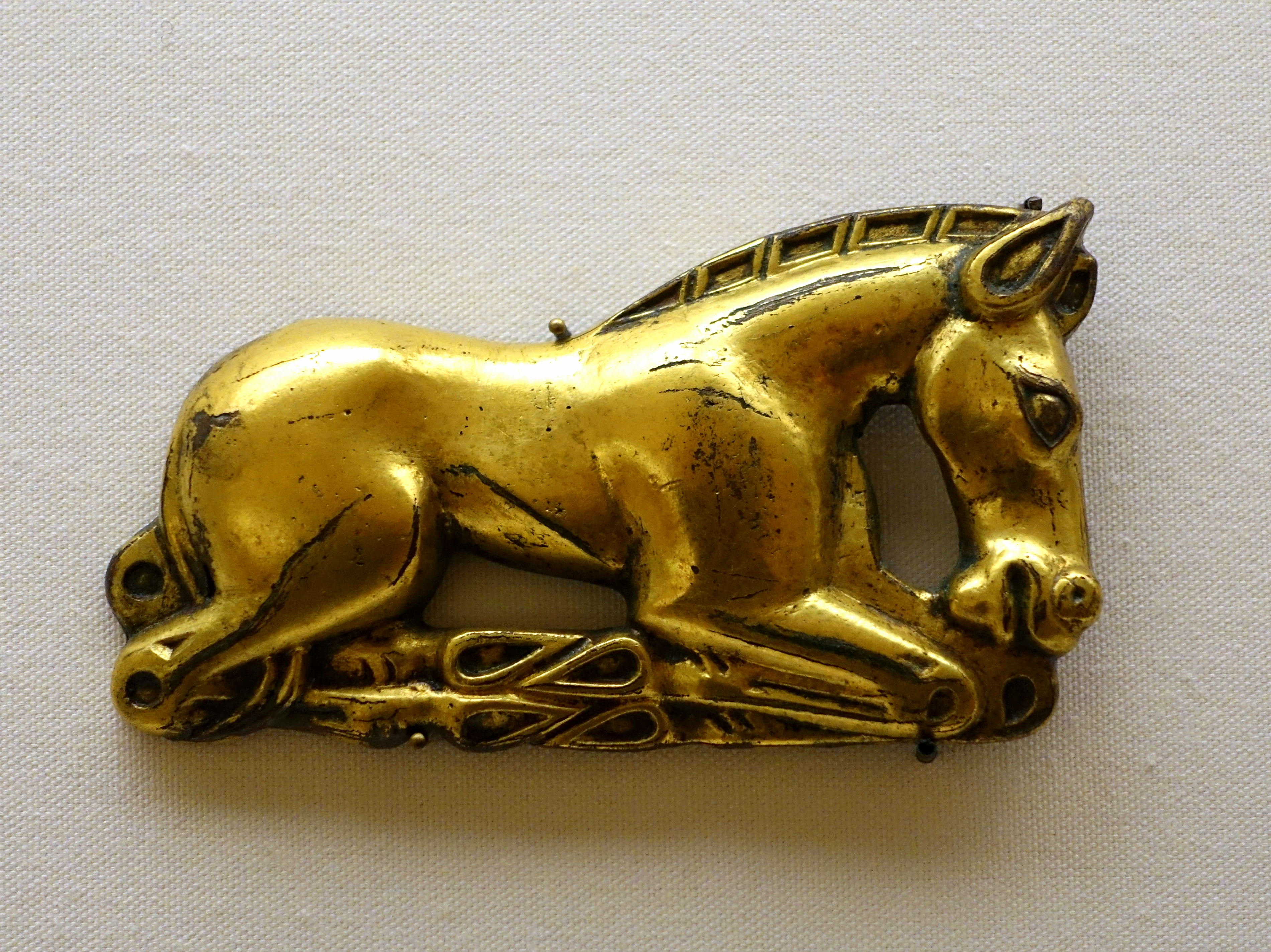 Exhibit in the Ethnological Museum, Berlin, Germany.